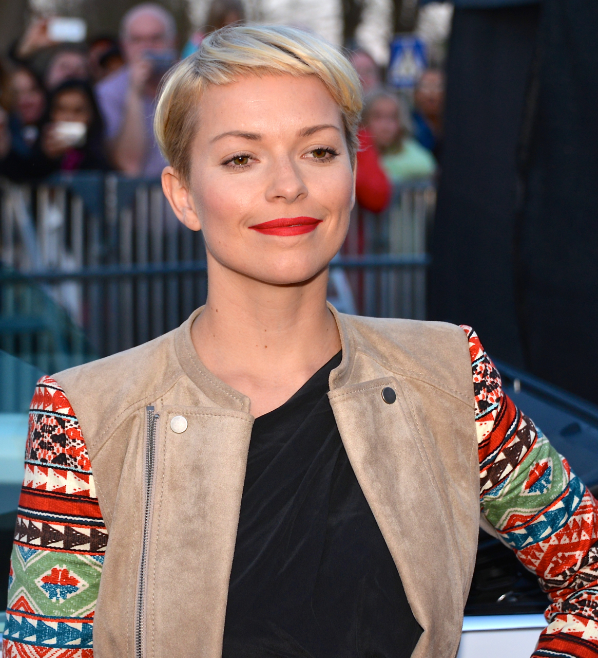 Petra Marklund during the opening of ABBA: The Museum May 6, 2013.